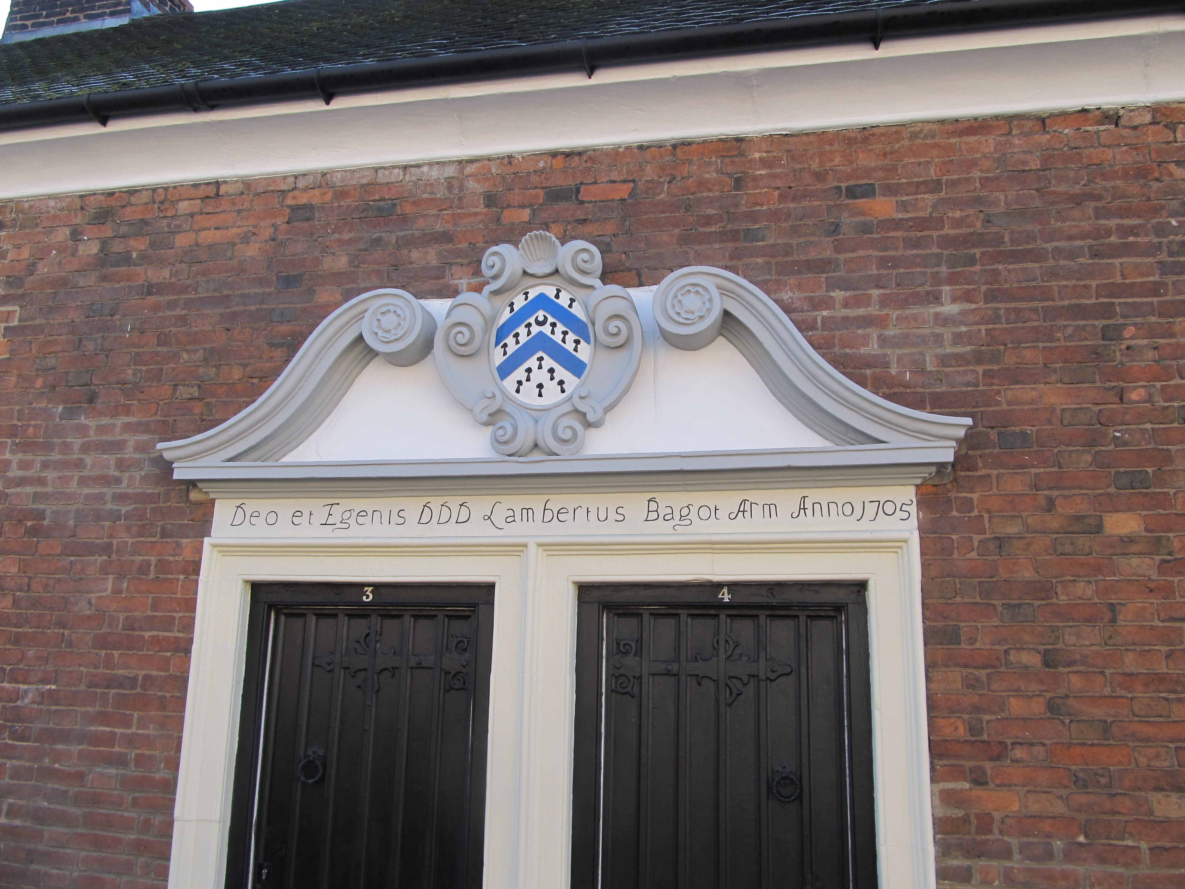 Bogot Almshouses, Abbot's Bromley